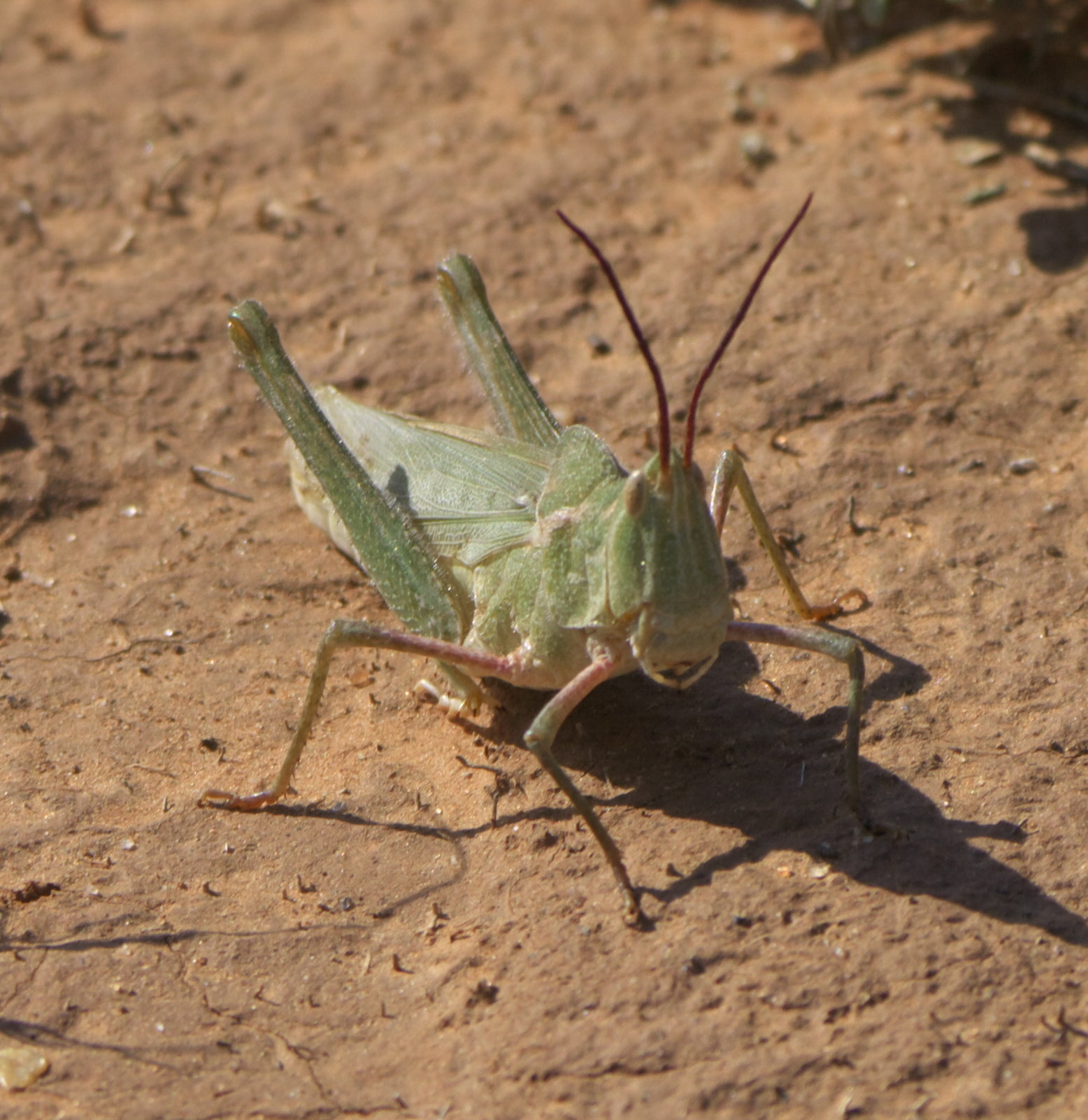 Acrolophitus hirtipes, Green Fool Grasshopper, ID Confidence: 98